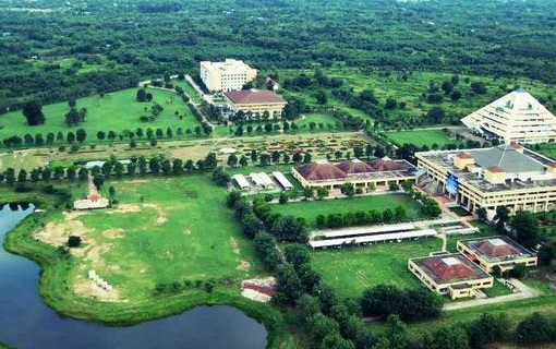 King Mongkut's University Of Technology North Bangkok Prachinburi Campus